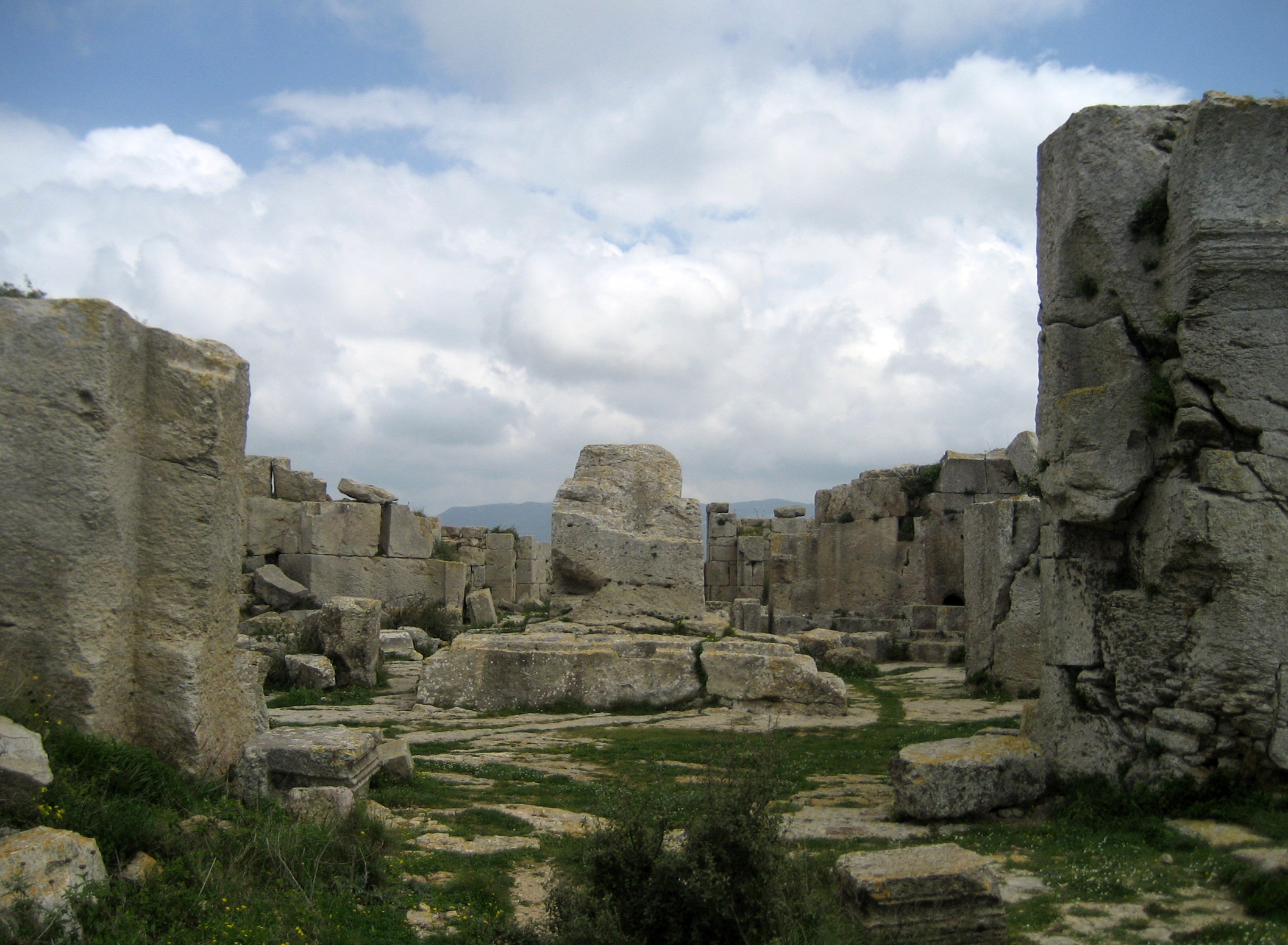 Ruins of the Monastery of St Simeon Stylites the Younger, with remains of his column (centre). Near Antakya, Hatay province, Turkey.